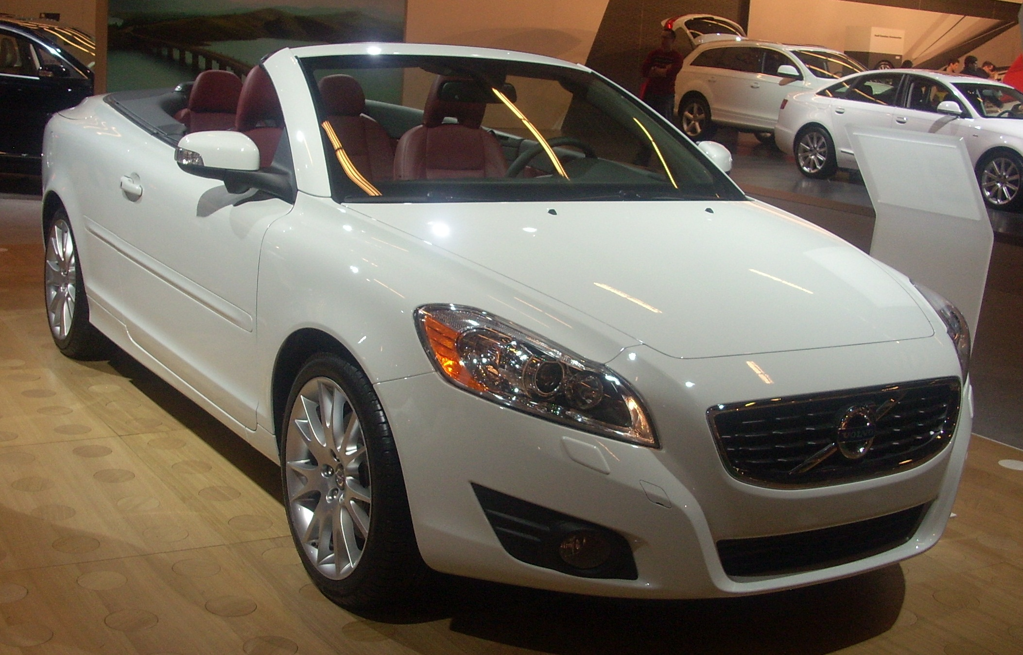 2011 Volvo C70 photographed in Montreal, Quebec, Canada at the 2010 Montreal International Auto Show.